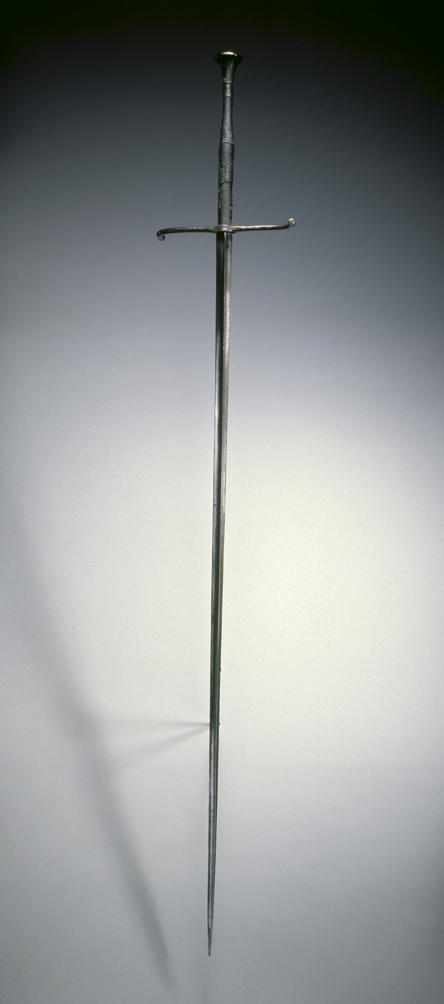 The French word estoc means "thrust" and therefore was adopted as the name for this long thrusting sword. It has a fairly long grip and simple cross-shaped hilt. The rigid blade, designed for thrusting at armored opponents, is three-sided for strength. The estoc was sometimes carried from the saddle. From the early 1300s, it was used by cavalrymen as an auxiliary side arm when a horseman had dismounted.